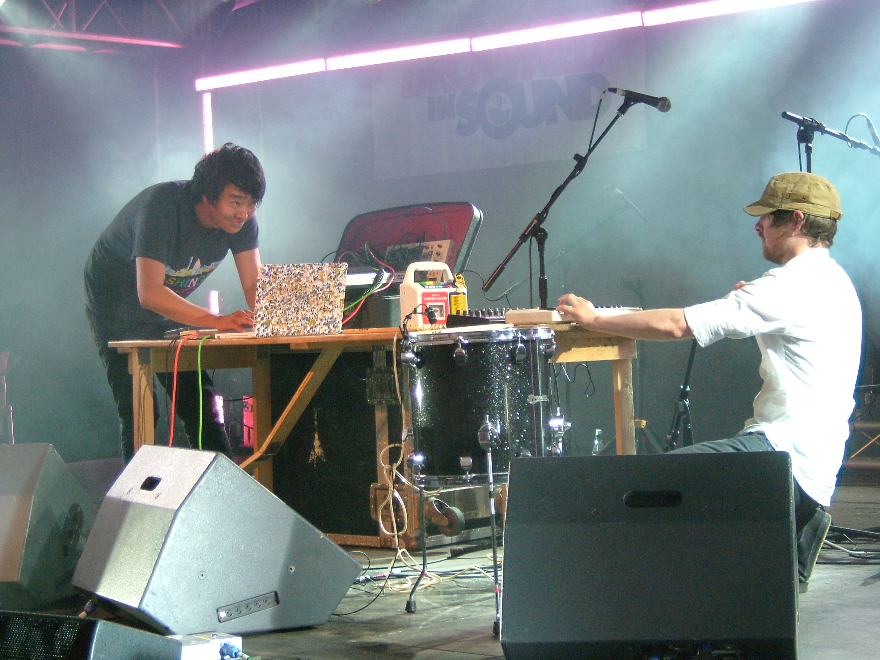 Fuck Buttons performing at Summer Sundae, Leicester, August 2008